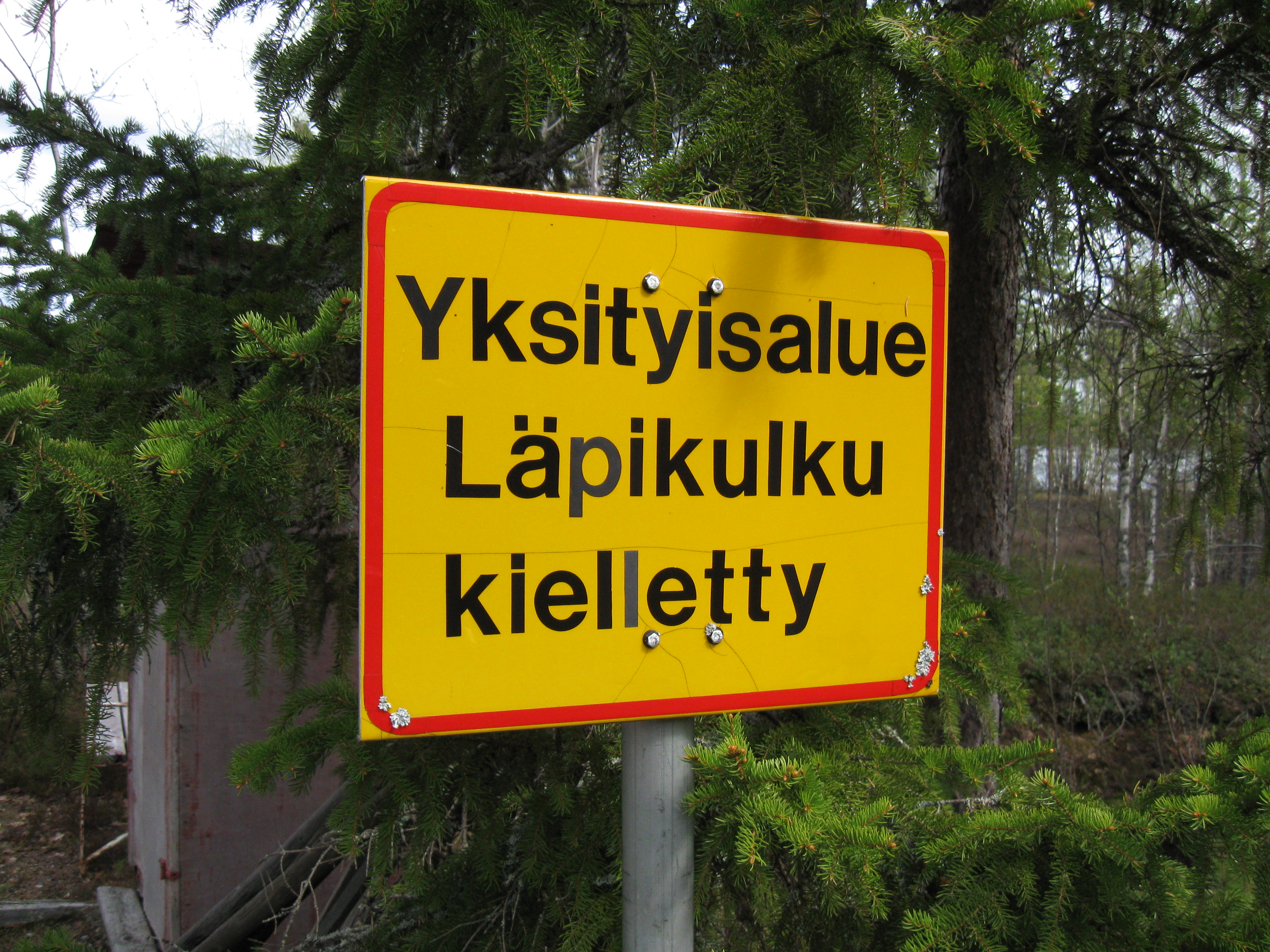 A Finnish sign indicating that crossing a private area is forbidden.